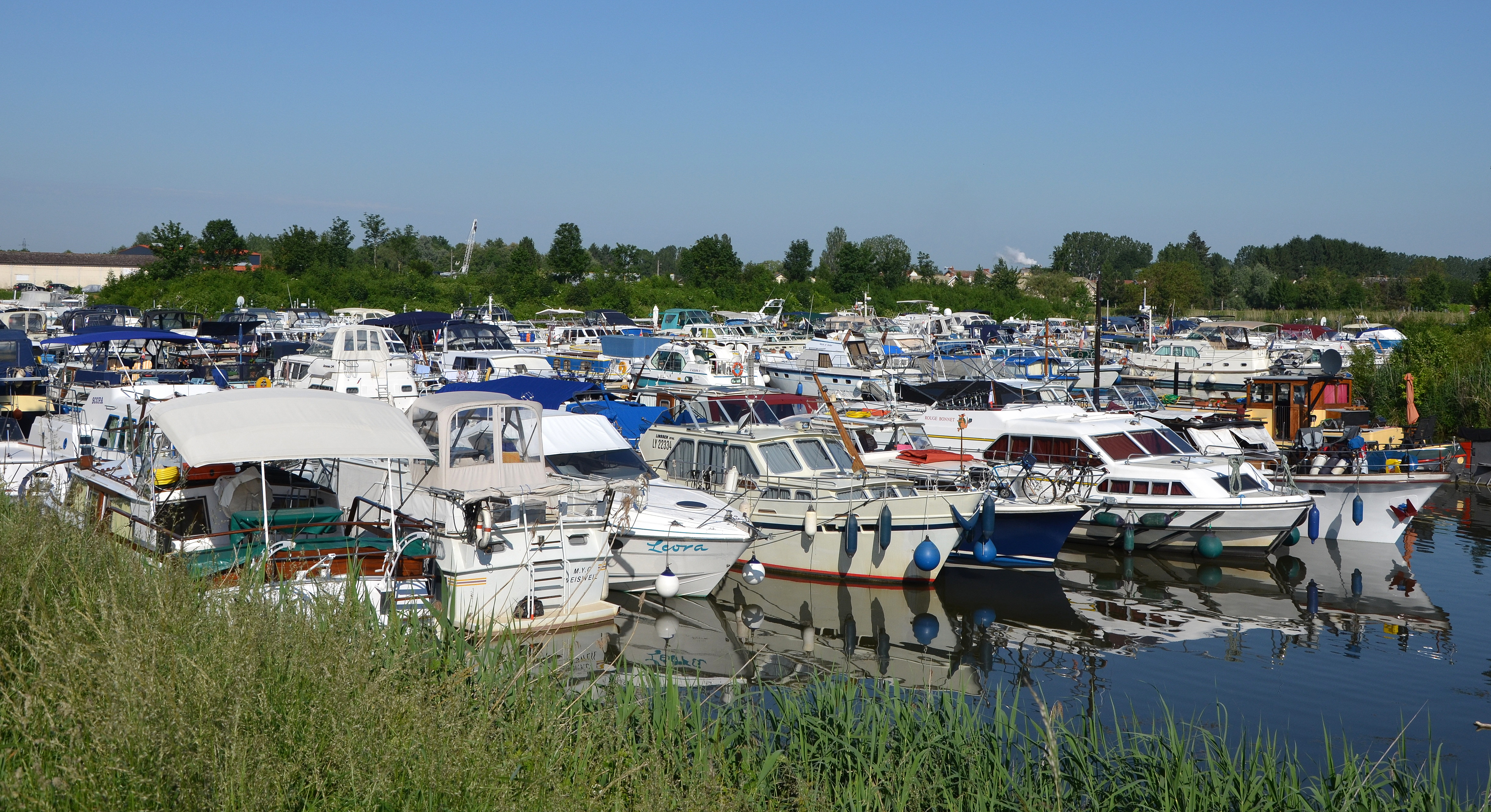 River port in Saint-Jean de Losne, Côte d'Or,Bourgogne, France